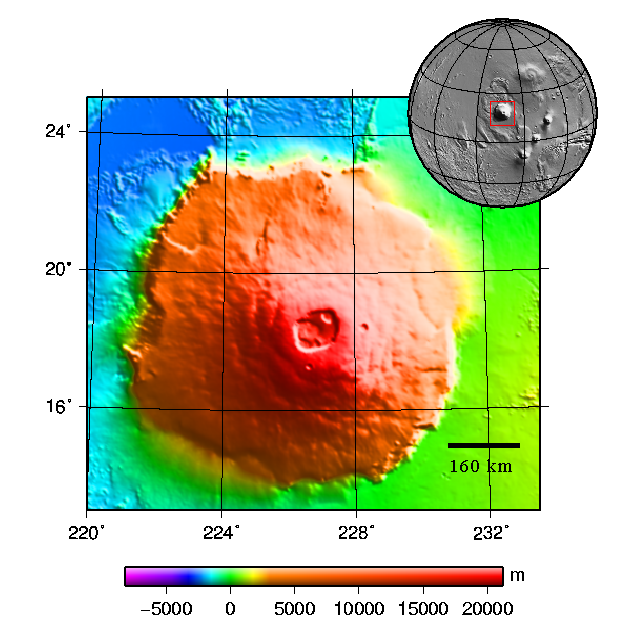 Topography map of shield vulcano Olympus Mons on Mars